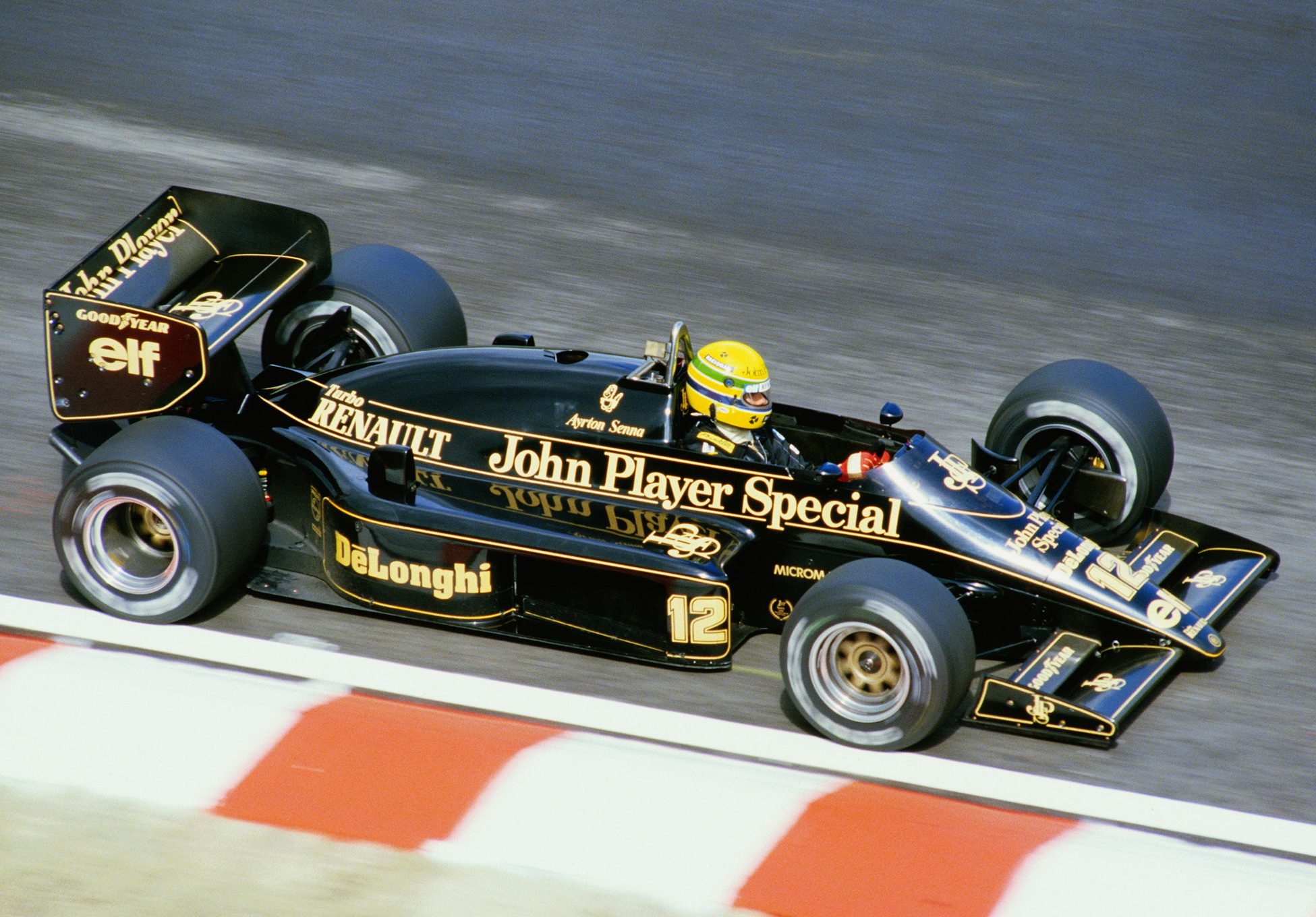 The Lotus 98T of Ayrton Senna, used in the 1986 Formula One season.